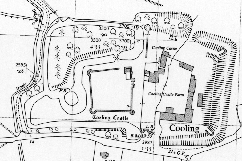 Cooling Castle - extract from Ordnance Survey National Grid map